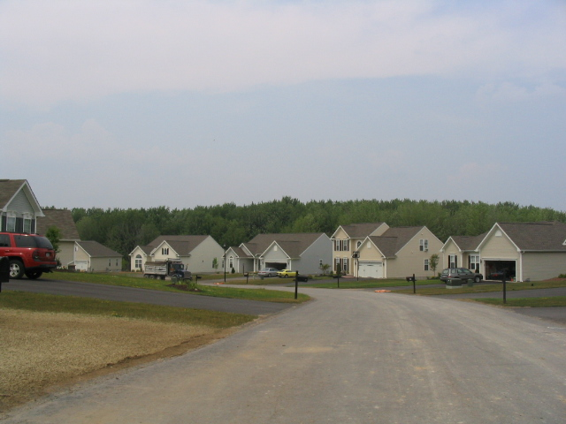 photo of new homes in Van Buren, NY, taken by me on July 10, 2007